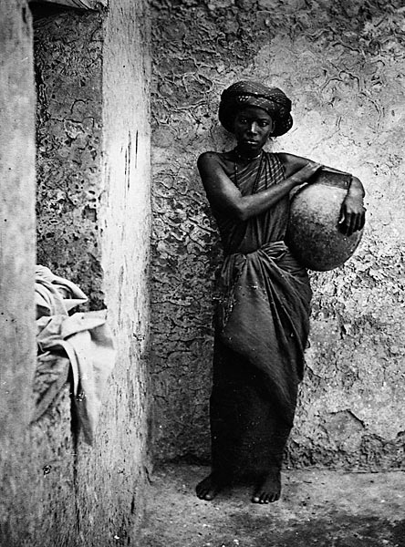 Servant/slave woman. Mogadishu • 1882-1883 (original description in